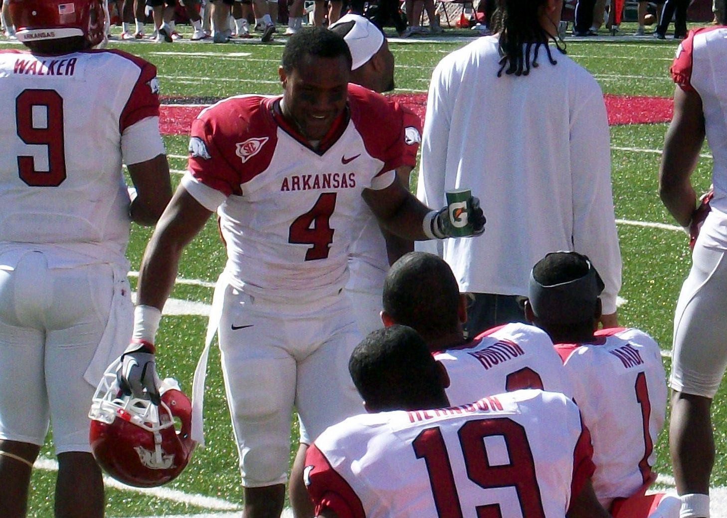 Jarius Wright talks with teammates during the 2011 Arkansas Razorbacks football spring game